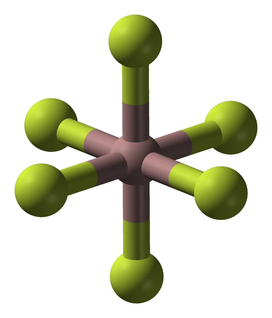 Ball-and-stick model of the coordination geometry of gallium in the crystal structure gallium trifluoride, GaF3. X-ray crystallographic data from Z. Krist. – New Cryst. Struct. (2001) 216, 18-18. Model constructed in CrystalMaker 8.1. Image generated in Accelrys DS Visualizer.